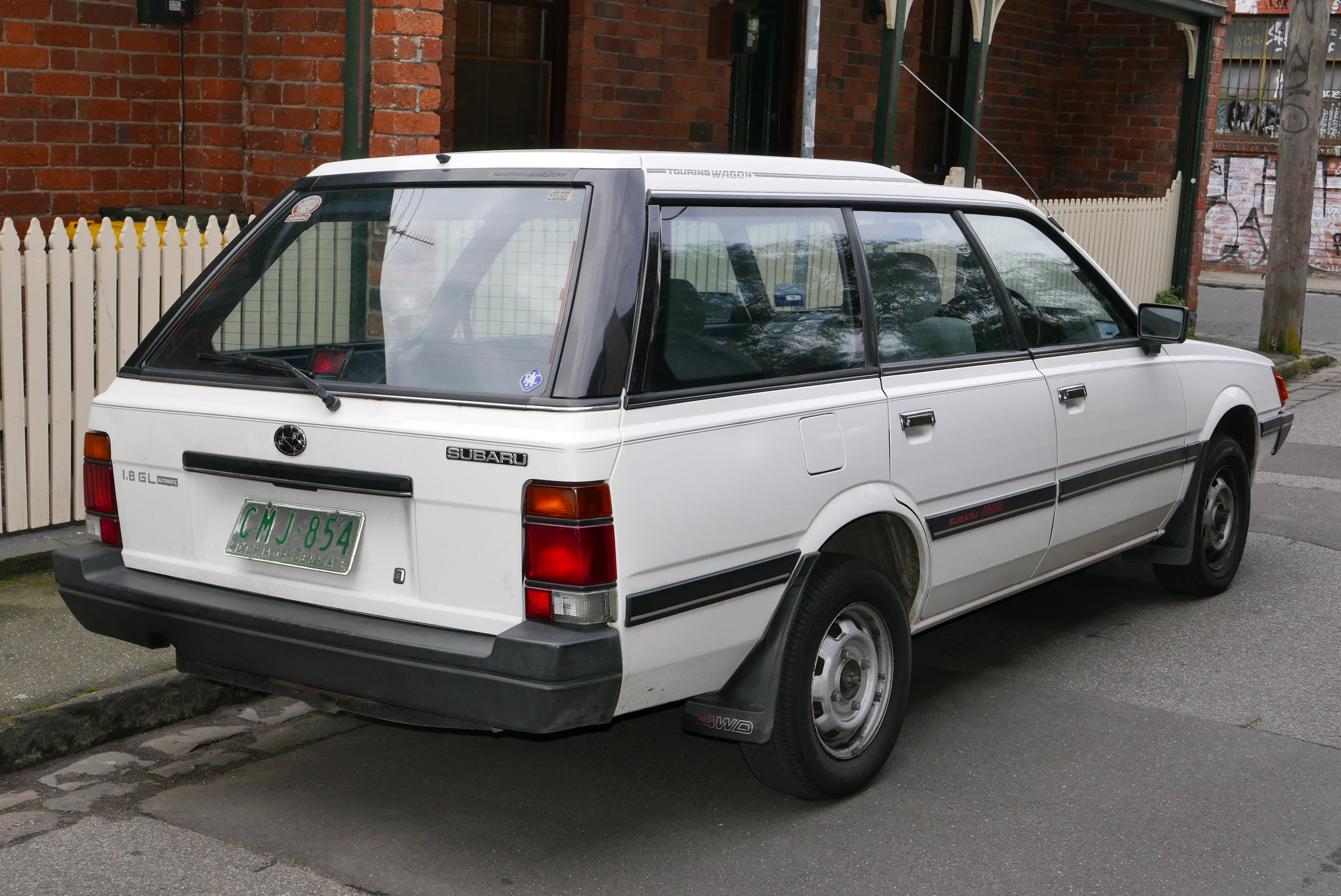 1985 Subaru L Series Touring Wagon GL station wagon. Photographed in Fitzroy, Victoria, Australia. Vehicle registration enquiry results Jurisdiction Victoria Registration CMJ854 Chassis code Not available Engine code 803899 Compliance date Not available Year of manufacture 1985